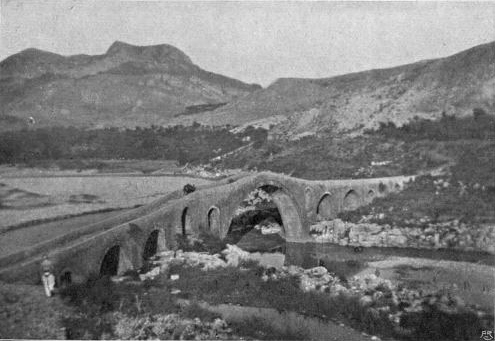 Ura e Mesit at Shkodra, Albania Original description: "The way to the skreli"